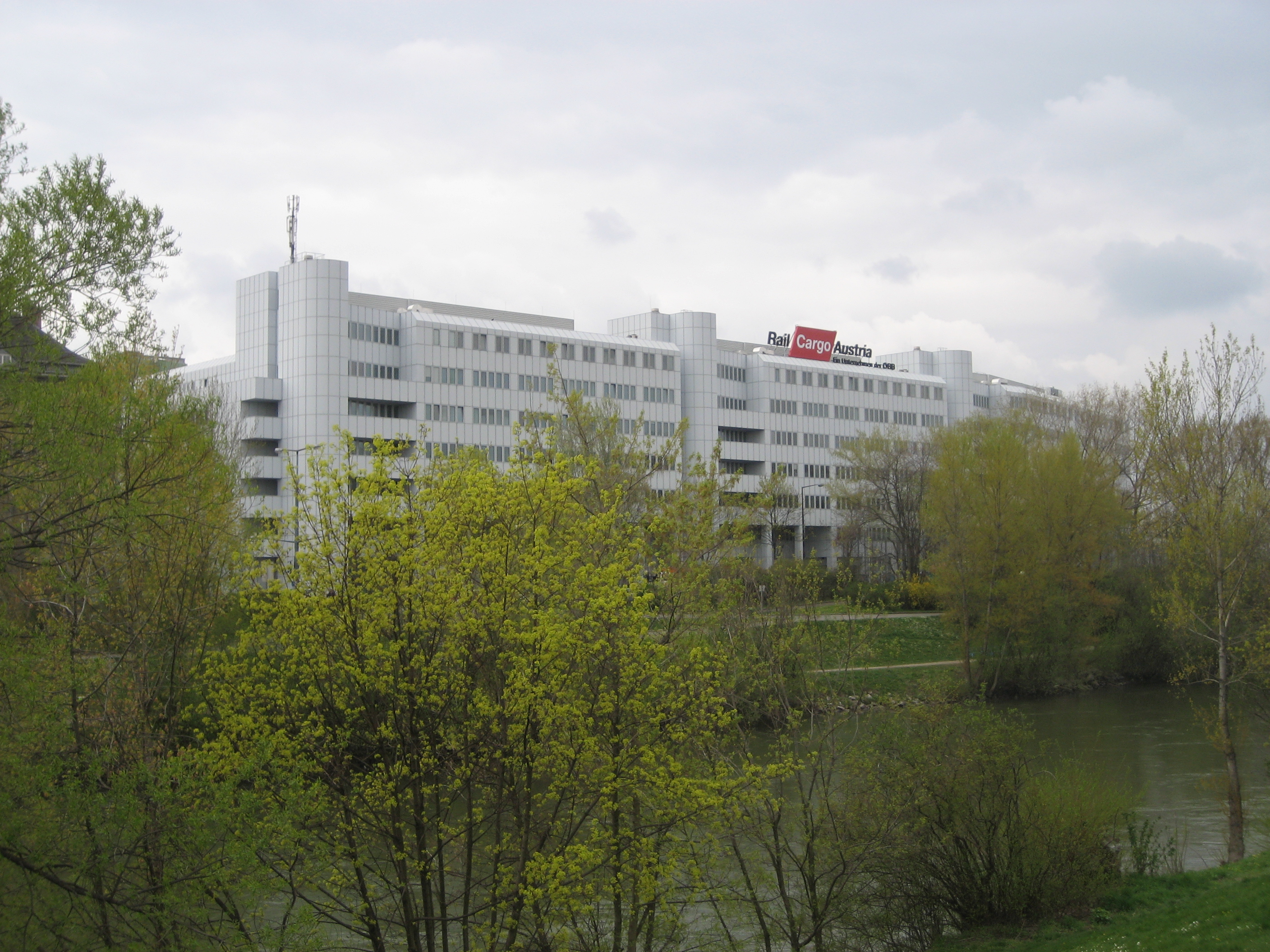 former Headquarters of the company Rail Cargo Austria, in Vienna